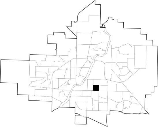 A map showing the location of the Grosvenor Park neighbourhood in relation to the other neighbourhoods in Saskatoon, Saskatchewan, Canada.